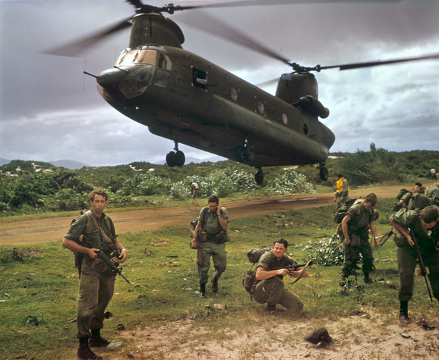 Phuoc Hai, South Vietnam. 26 August 1967. Troops of 1st Australian Task Force (1ATF) wait for a huge US Chinook helicopter to leave the ground before returning to base after Operation Ulmarra. The Chinook lifted the soldiers to Nui Dat from the fishing village which had been searched for Viet Cong (VC) activity.